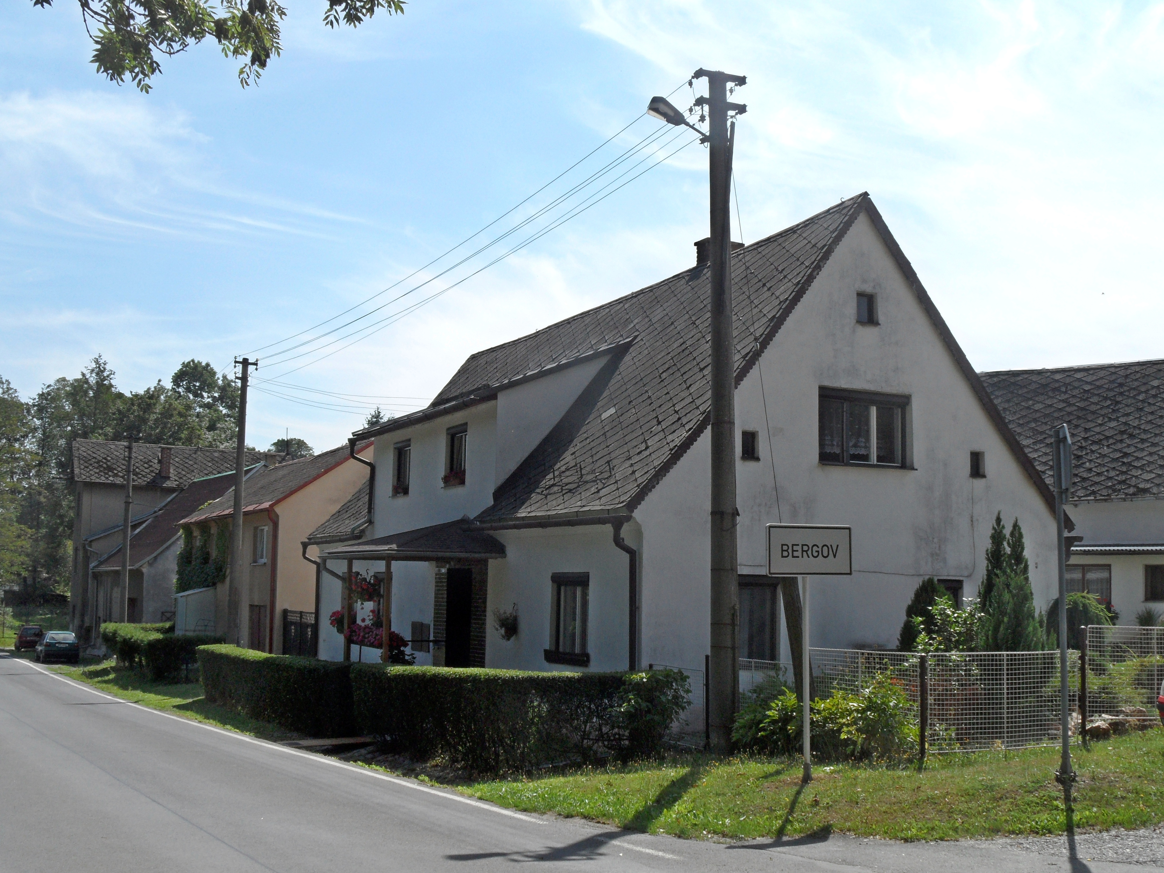 Bergov A. Houses along Main Road I/60. Jeseník District, the Czech Republic.